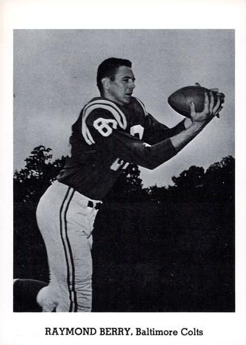 A promotional image of Baltimore Colts player Raymond Berry.